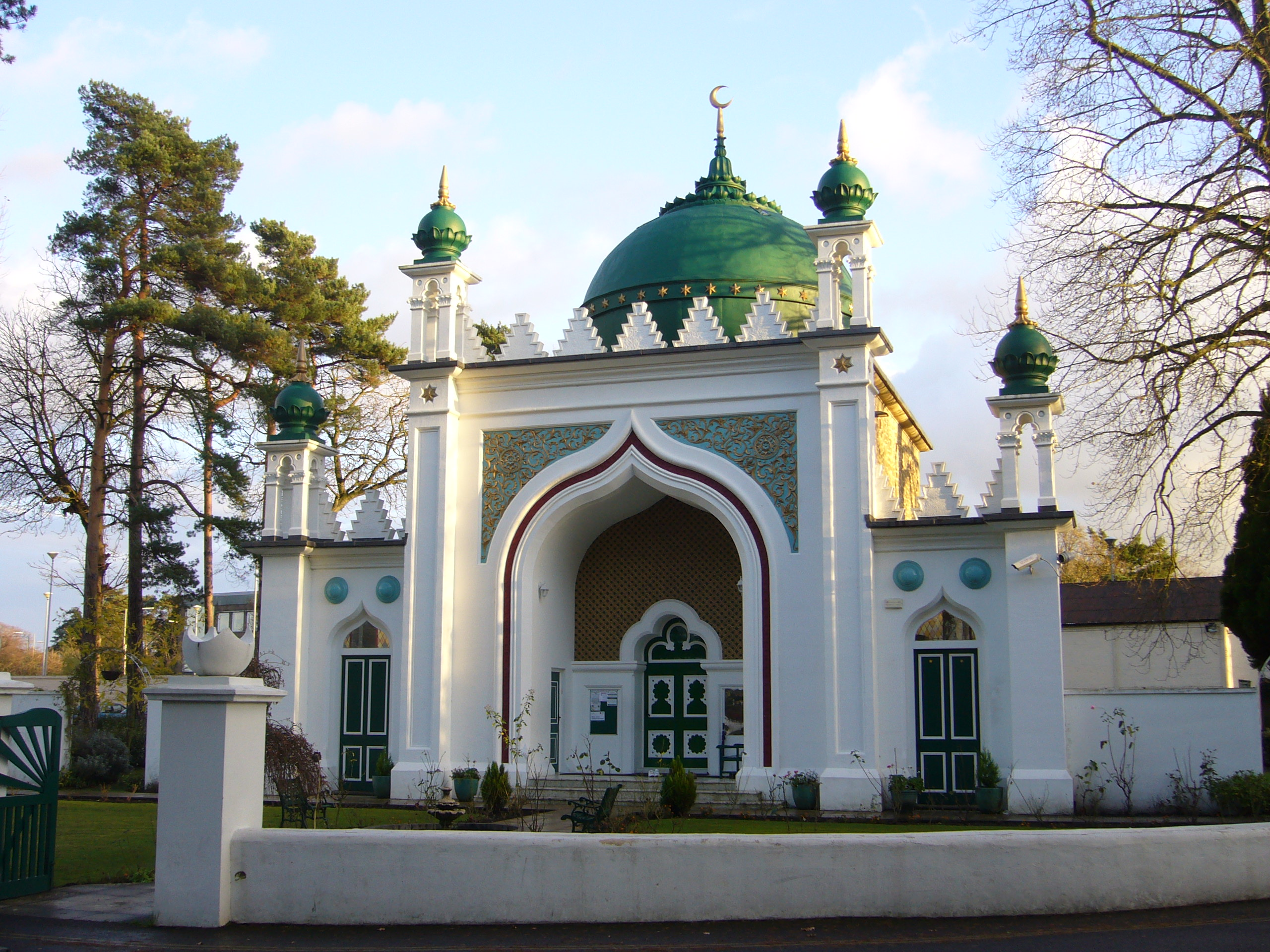 Shah Jahan Mosque, Woking, Surrey. See Muslim heritage page on Woking borough website.